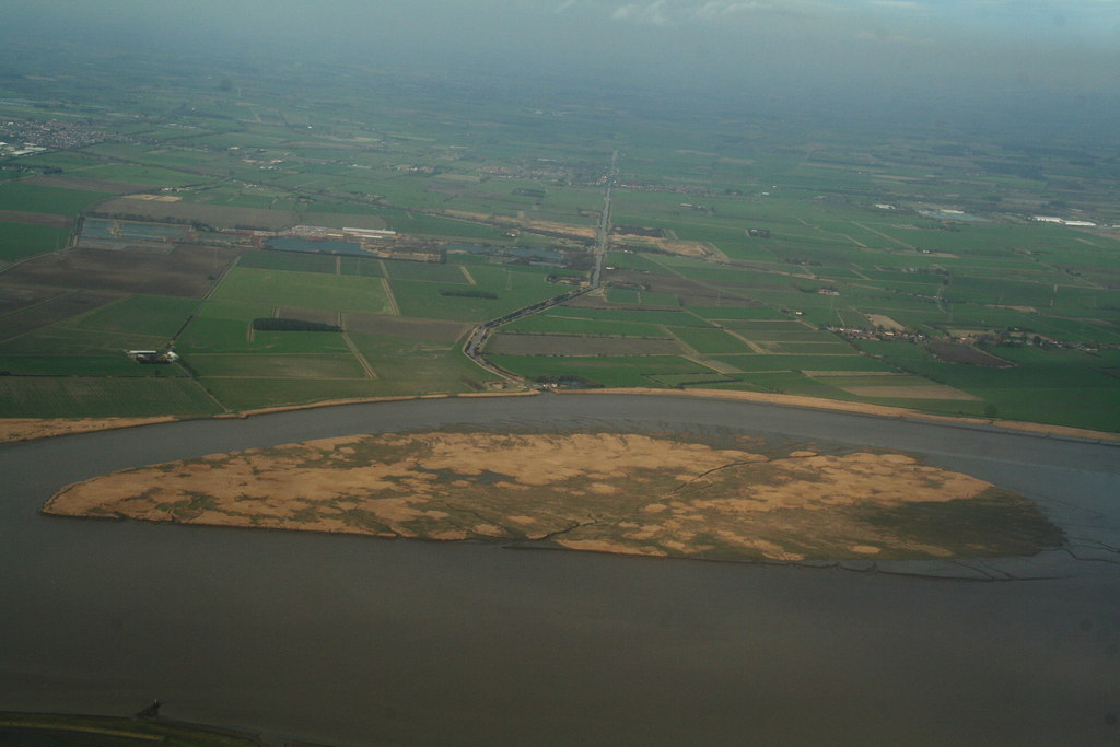 Whitton Island and Weighton Lock: aerial 2014, East Riding of Yorkshire, England.